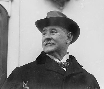 Thomas Power O'Connor (1848 – 1929), journalist, Irish nationalist politician